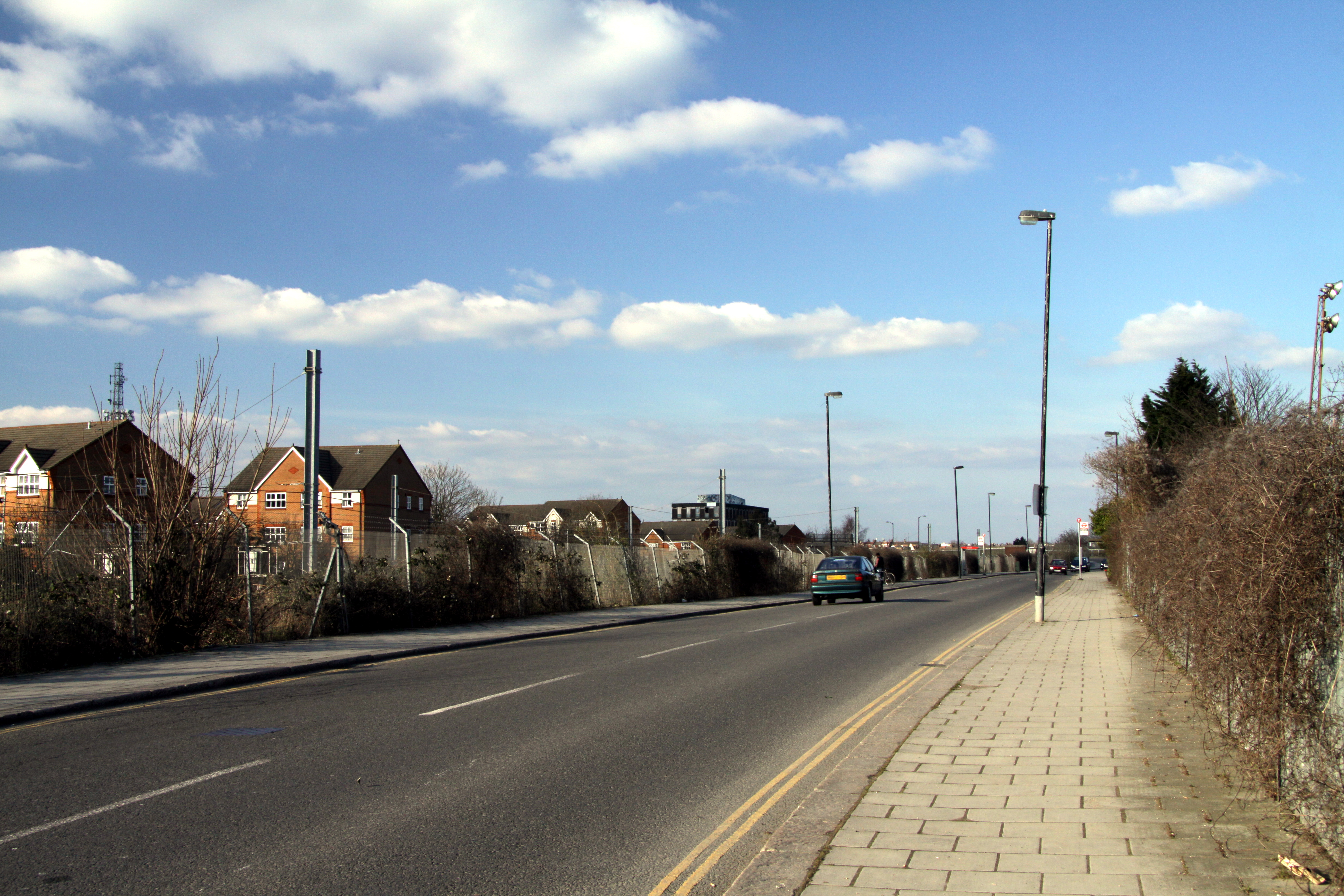 Road in Old Oak Common Lane, London, England, Great Britain.